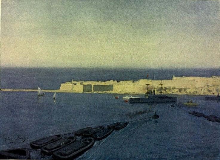 Ilustration “Fort Ricasoli” - from the book Malta by F. Ryan